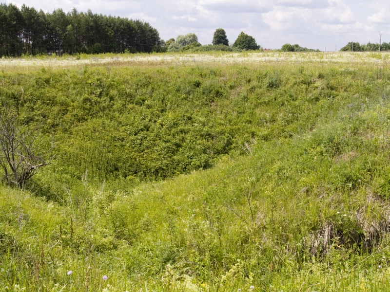 Sinkhole to the South of Kasimov, Rjazan Region, Russia.